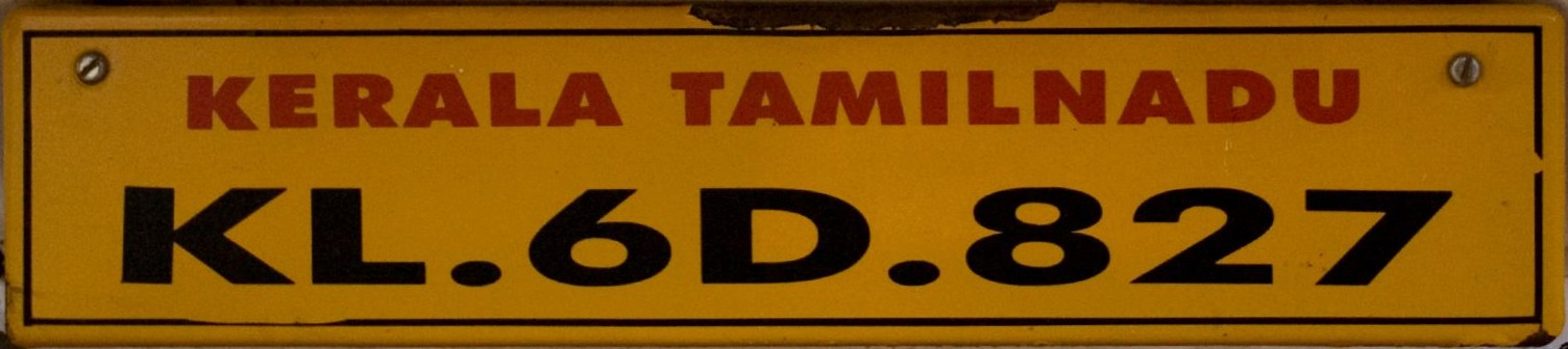 License plate of the State of Kerala, India